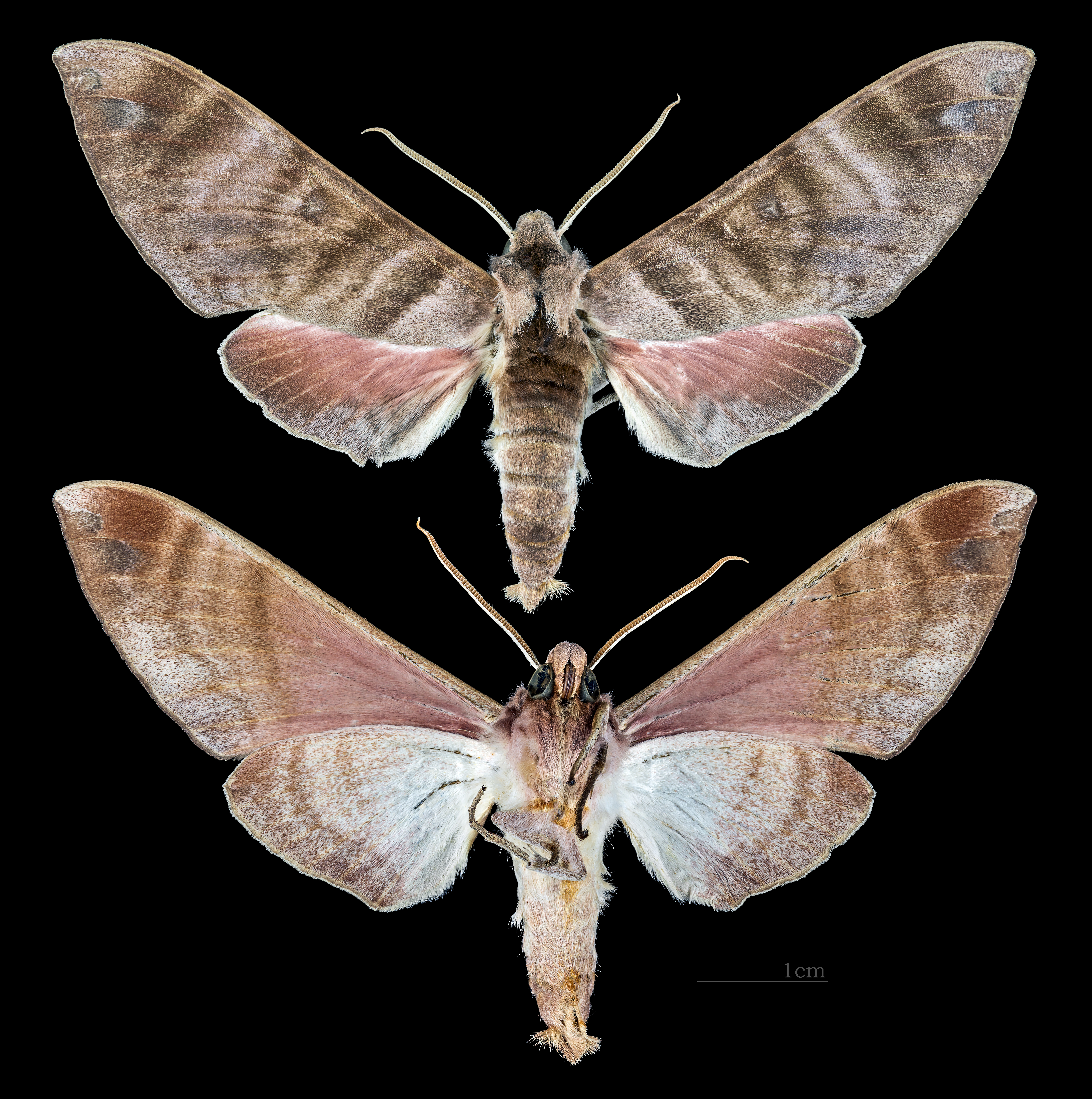 Opistoclanis hawkeri - Two views of same specimen Collection of the Mathematician Laurent Schwartz